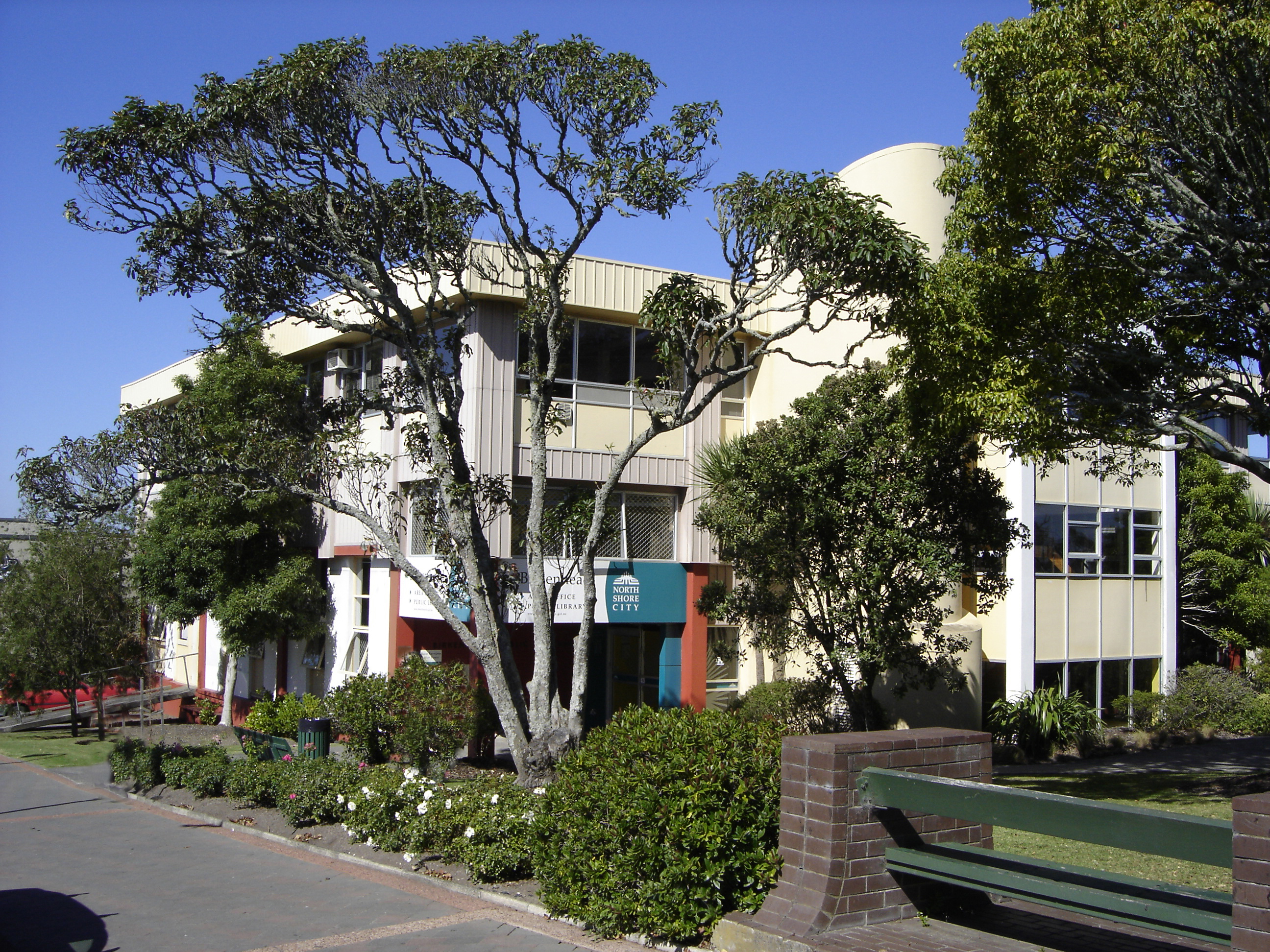 Birkenhead Public Library 2005, front entrance. Library is ground floor. Removed two figures from foreground.